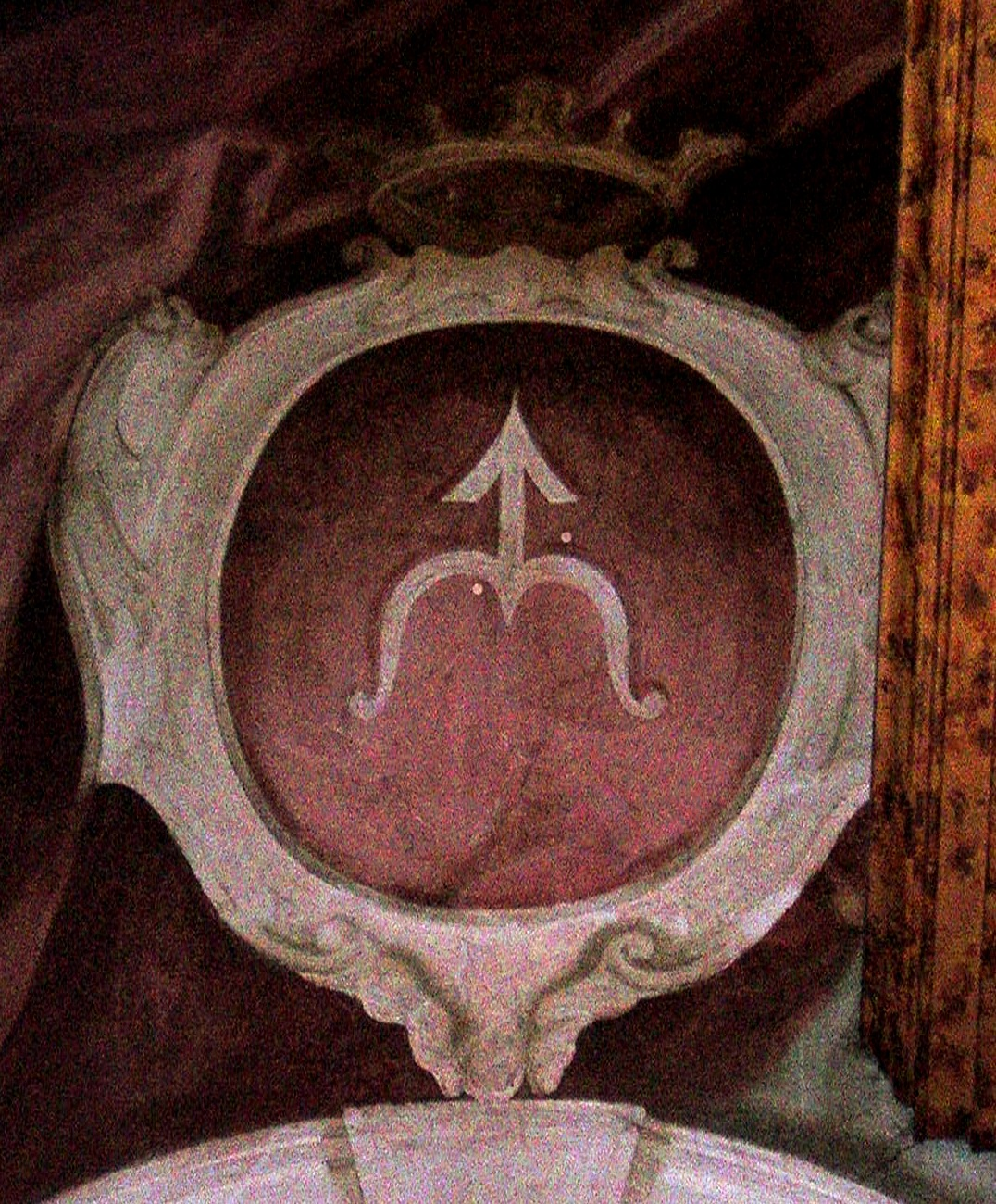 Coat of arms of the Lords of Kravaře. Fresco No. 31, Most Holy Trinity Church, Fulnek, Czechia, Europe.